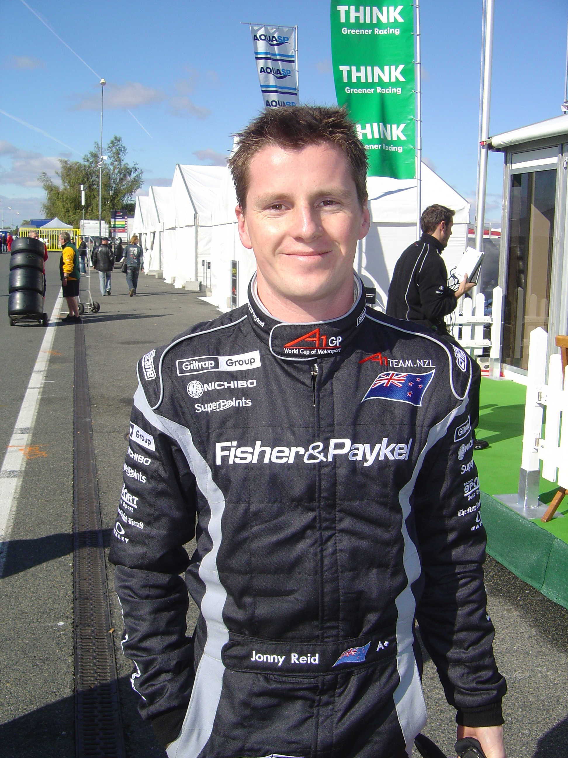 Jonny Reid: the photo was taken during 2007's A1GP race weekend at Brno